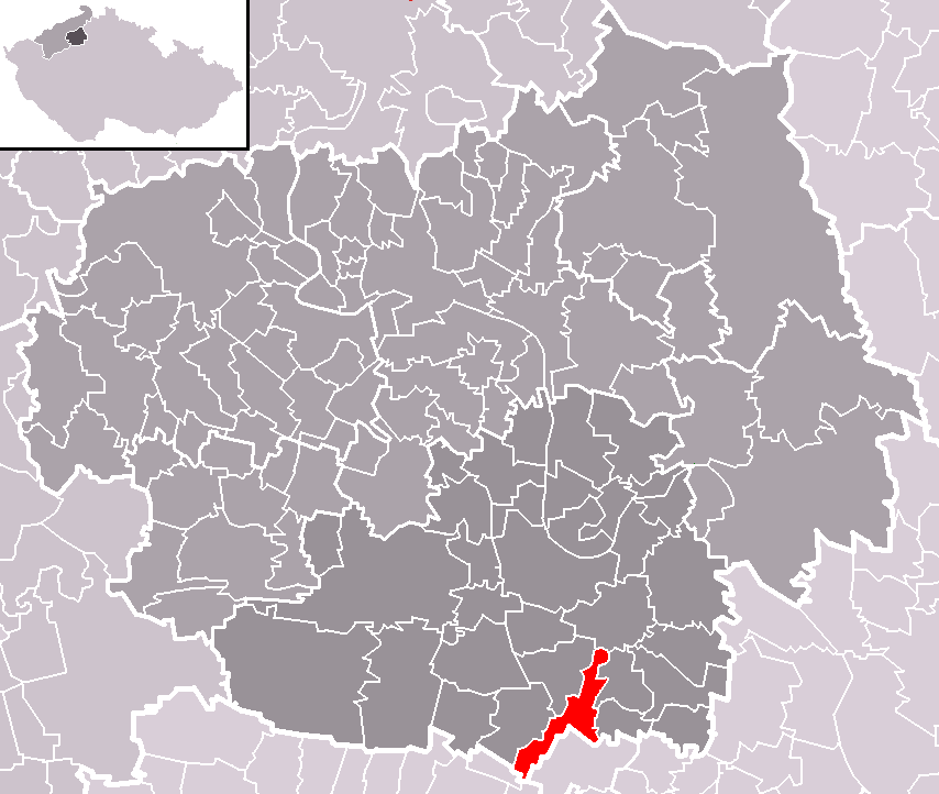 Location of Mnetěš municipality within Litoměřice District and administrative area of Roudnice nad Labem as a Municipality with Extended Competence.